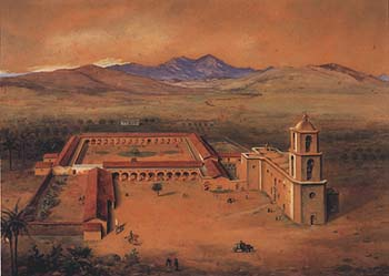 Depicted place: Mission San Juan Capistrano